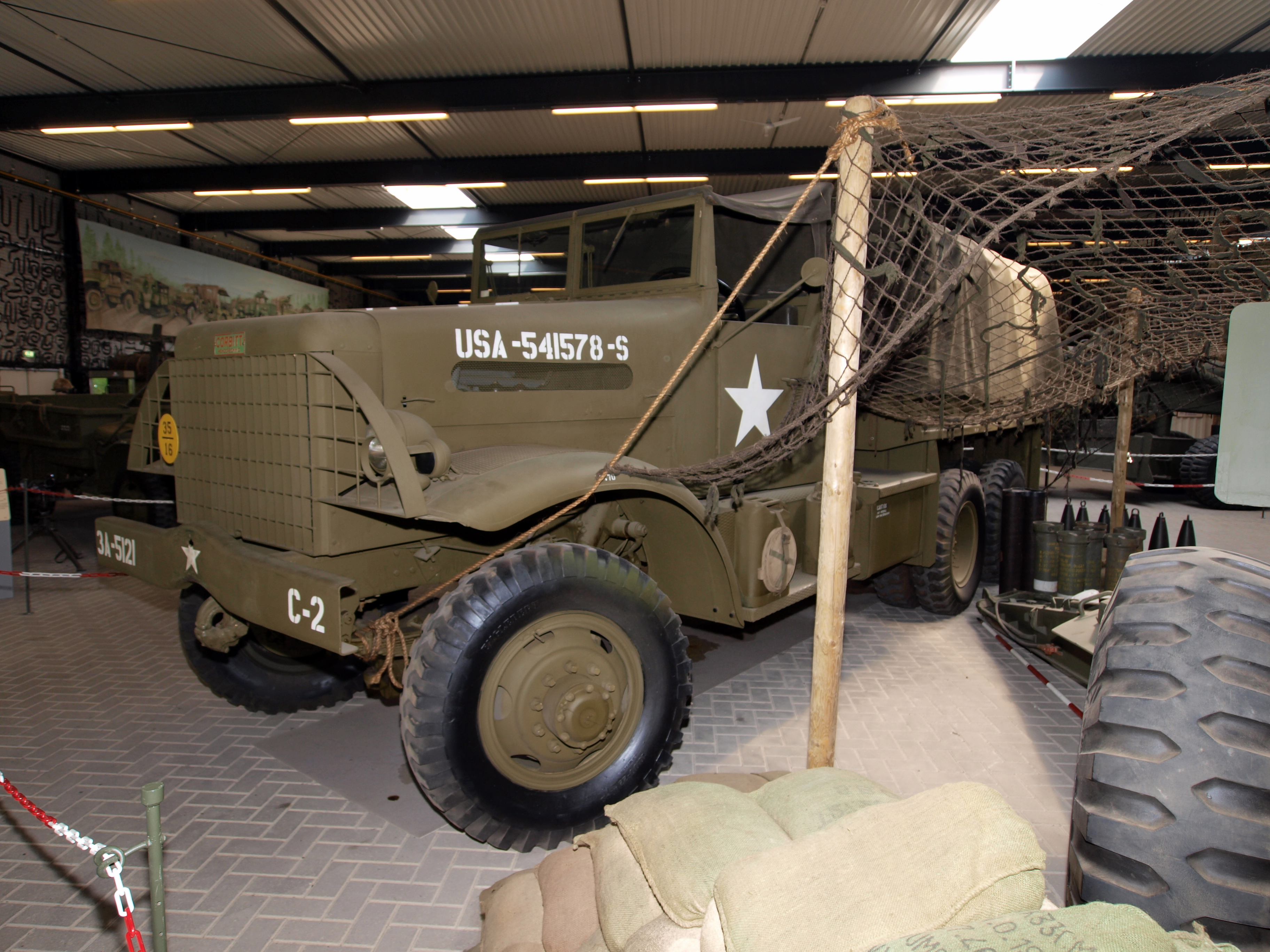 Photographed at the Marshallmuseum - Liberty Park - Oorlogsmuseum Overloon, The Netherlands.